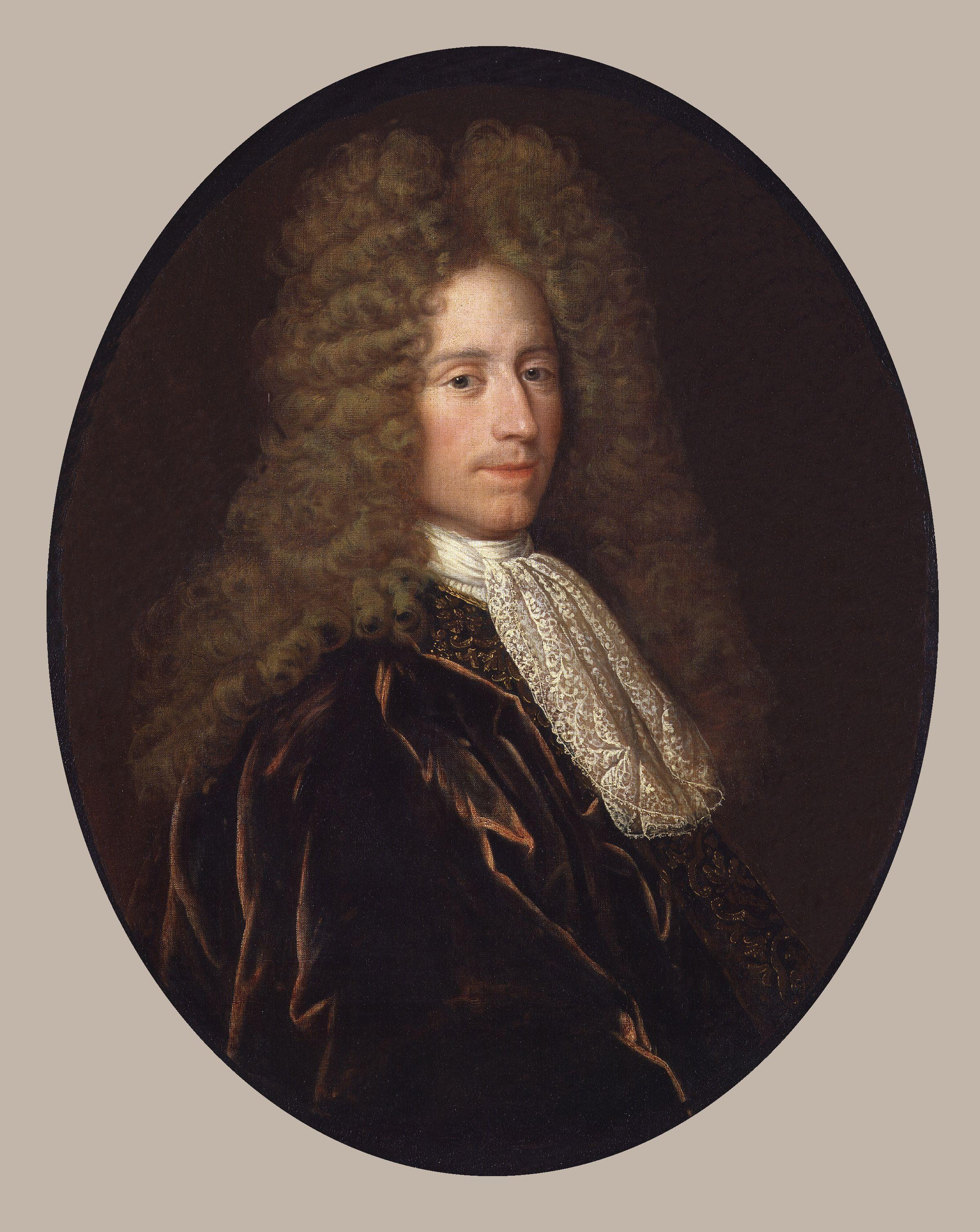 John Law, by Alexis Simon Belle (died 1734).